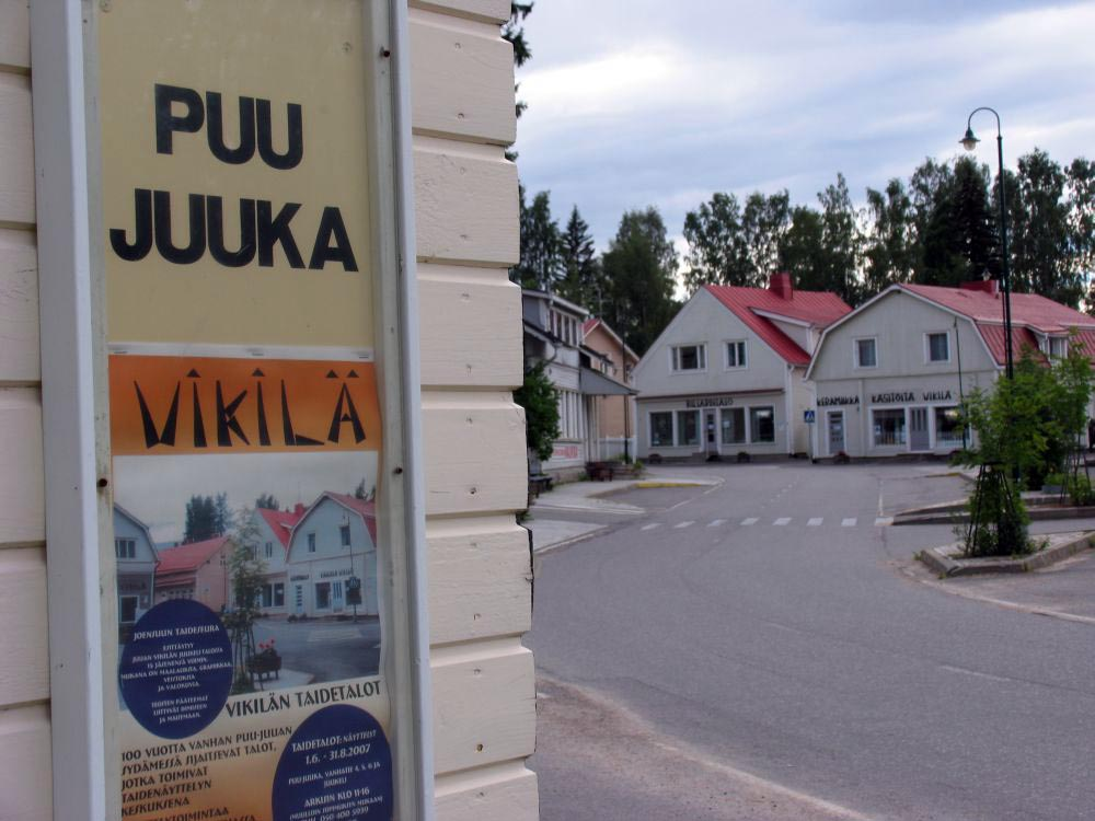 Puu-Juuka, the wooden centre of Juuka, Finland